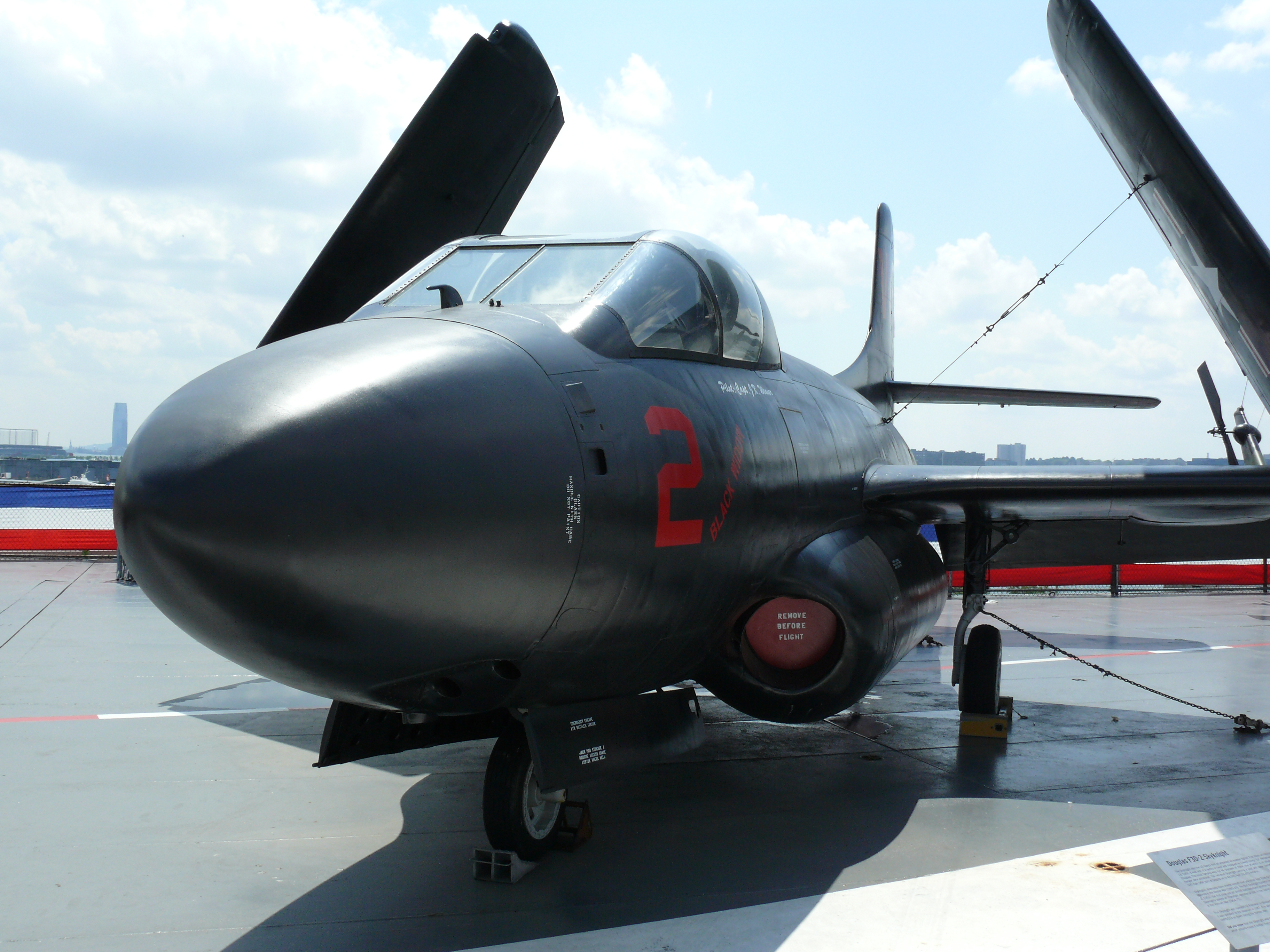 Douglas F3D-2 Skyknight in the Intrepid Sea-Air-Space Museum. The Douglas F3D Skyknight, (later F-10 Skyknight) was a twin-engine, midwing jet fighter aircraft designed as a carrier-based all-weather aircraft. This aircraft is painted in the colours of Marine Squadron VMFN 513 as flown during the Korean War.